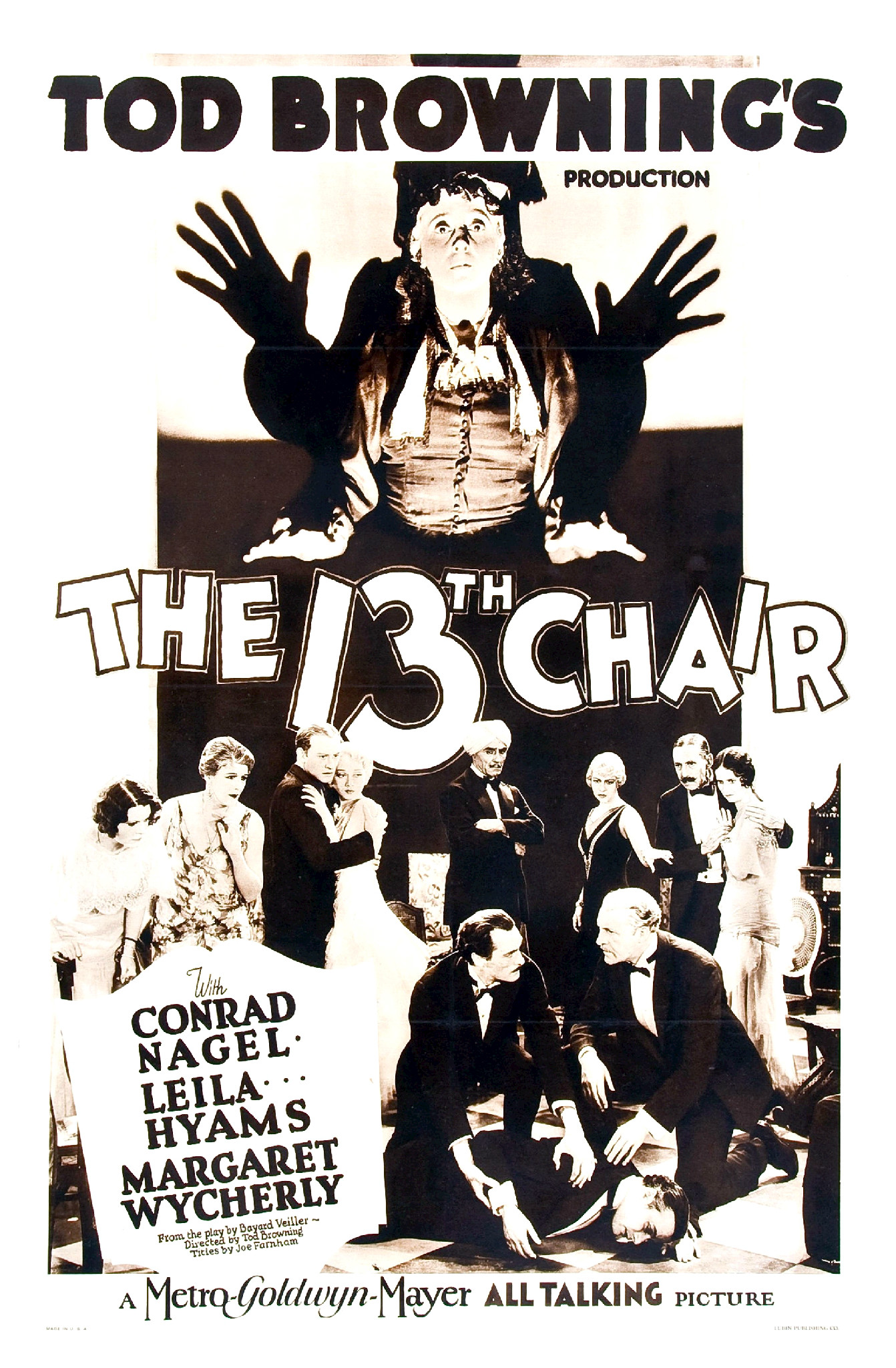 Poster for the 1929 film The Thirteenth Chair. The item has no copyright markings on it as can be seen in the links above. At left is Made in USA; at right is Lubin Publishing Co.--they printed the poster.